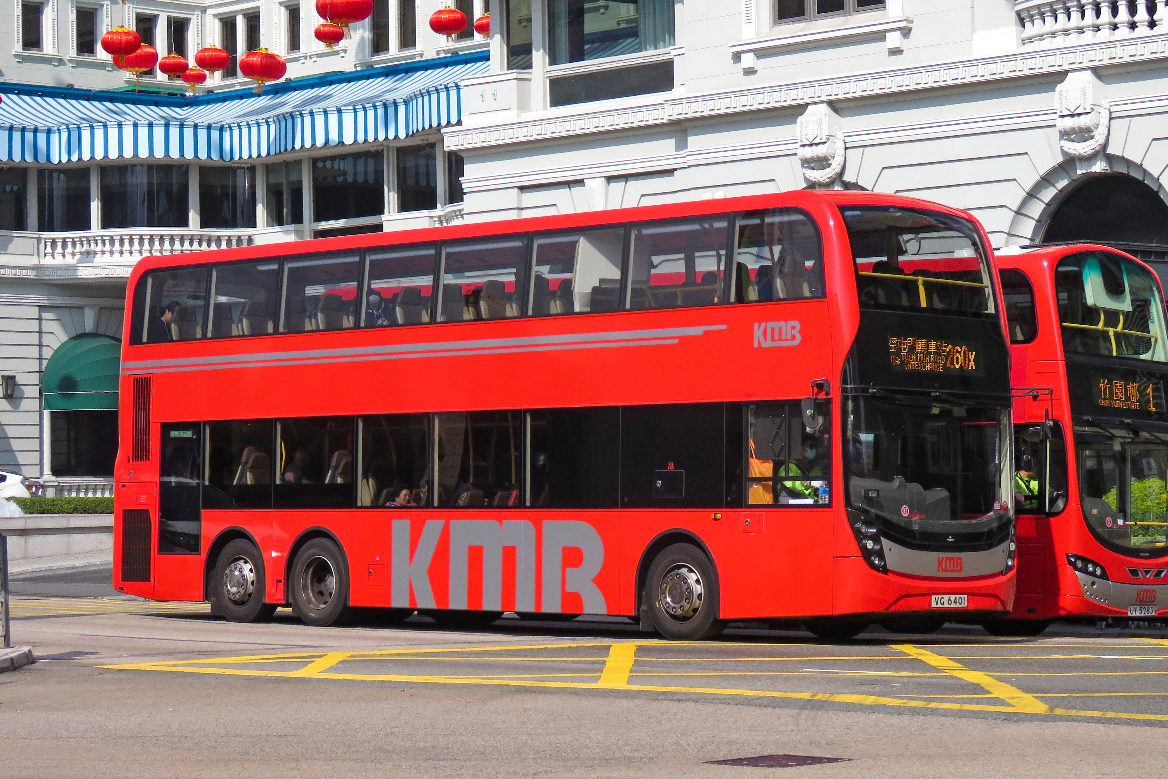 Here are the two major species of KMB.